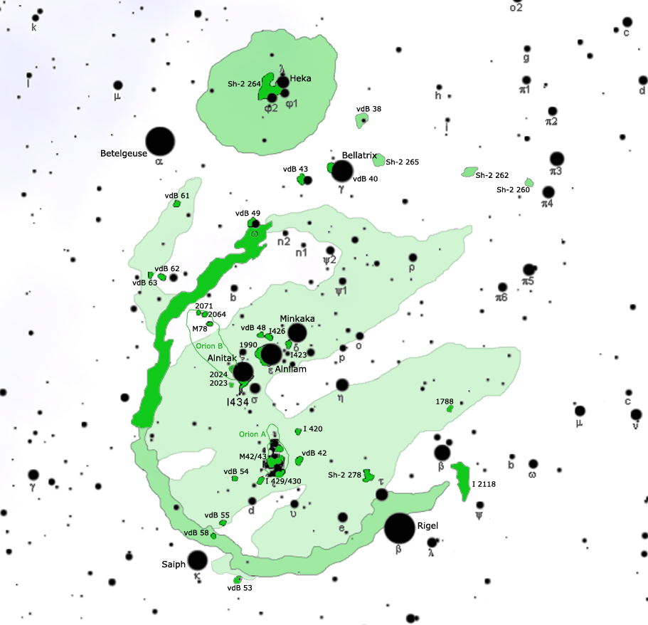 Map of Orion Molecular Cloud